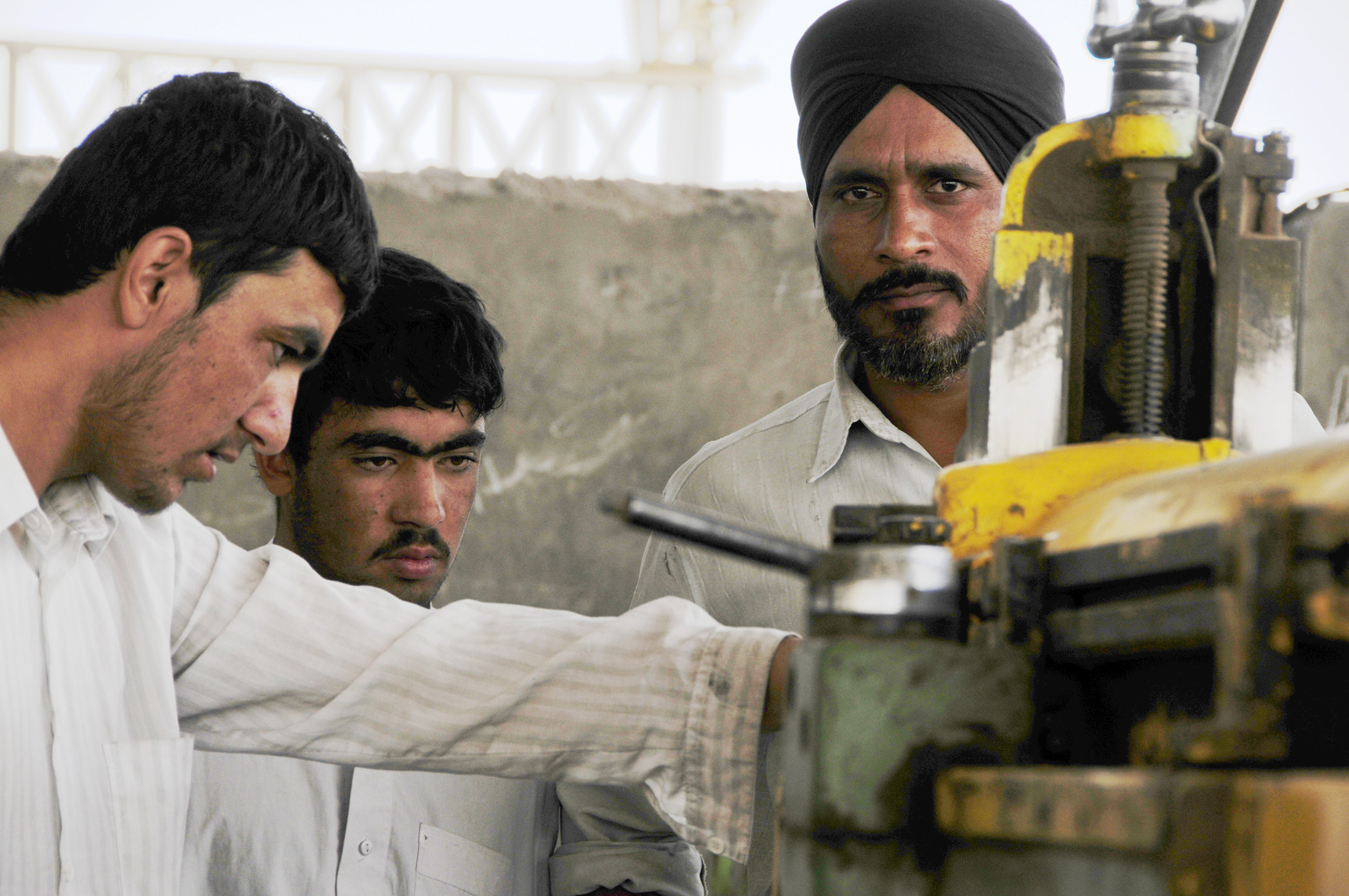 (HERAT, AFGHANISTAN) -- Workers at the Herat City steel mill attend to a machine which melts steel to produce rebar, a rod used for reinforcement in concrete or asphalt pourings.